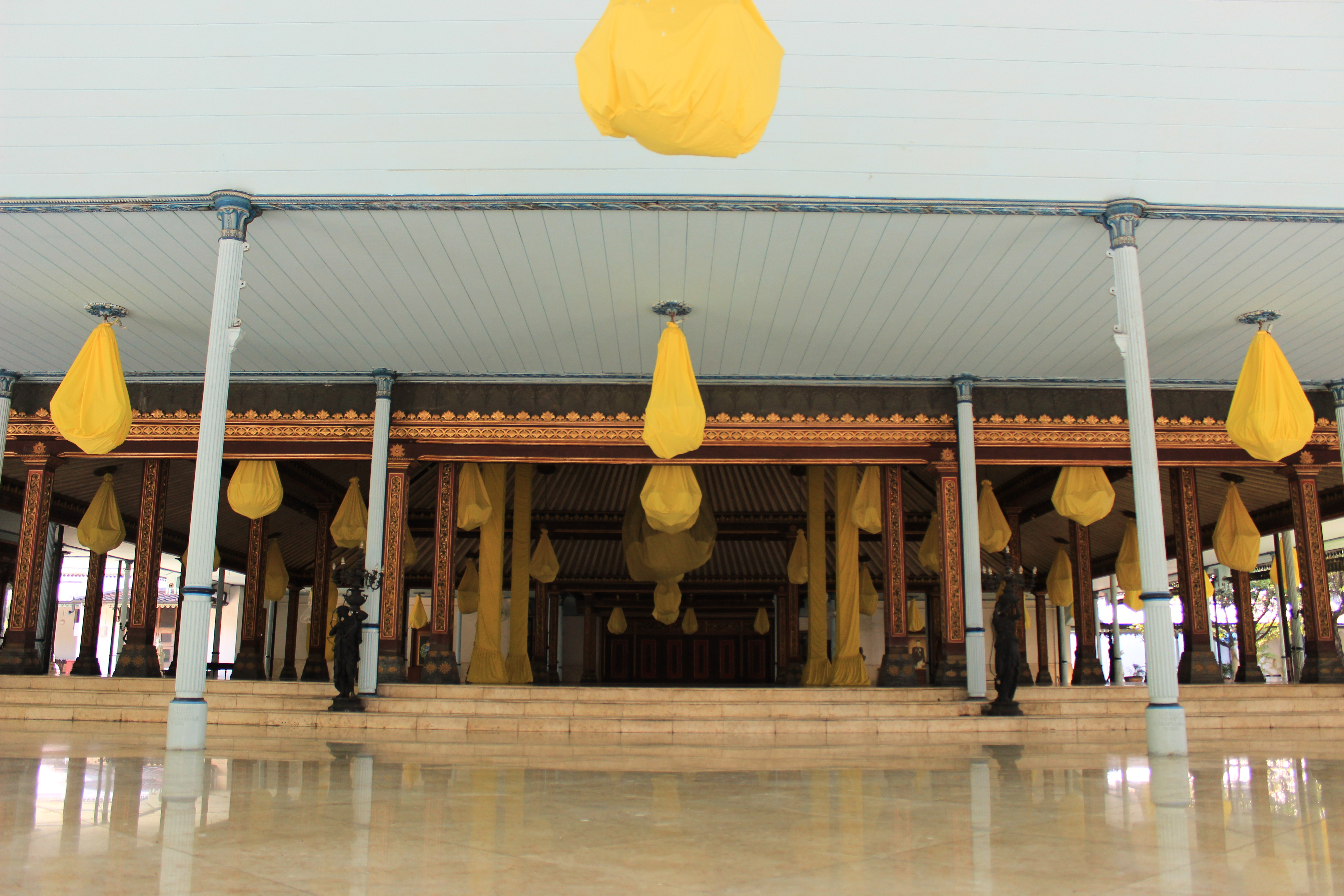 Sasana Sewaka Main Pavilion at Surakarta Hadiningrat Royal Palace.